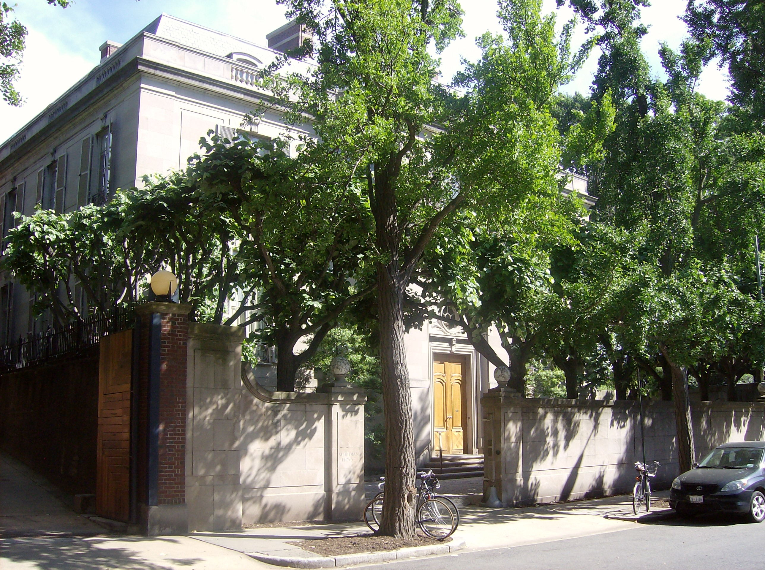 View from Crescent Pl. NW of the Meridian House, built in 1912 by U.S. Ambassador Irwin Boyle Laughlin.